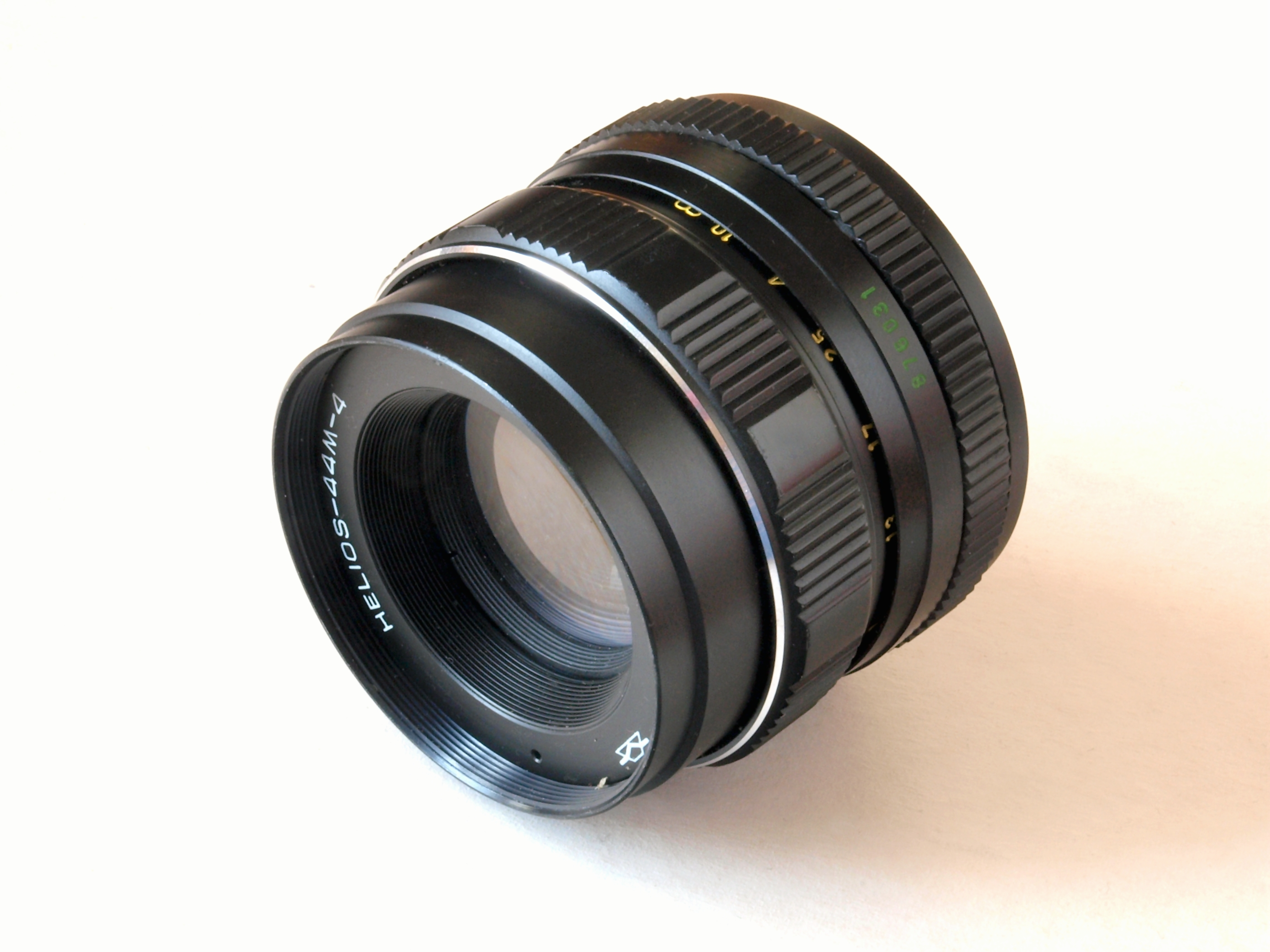 HELIOS-44M-4 fixed lens made in Russia, in M42 mount.